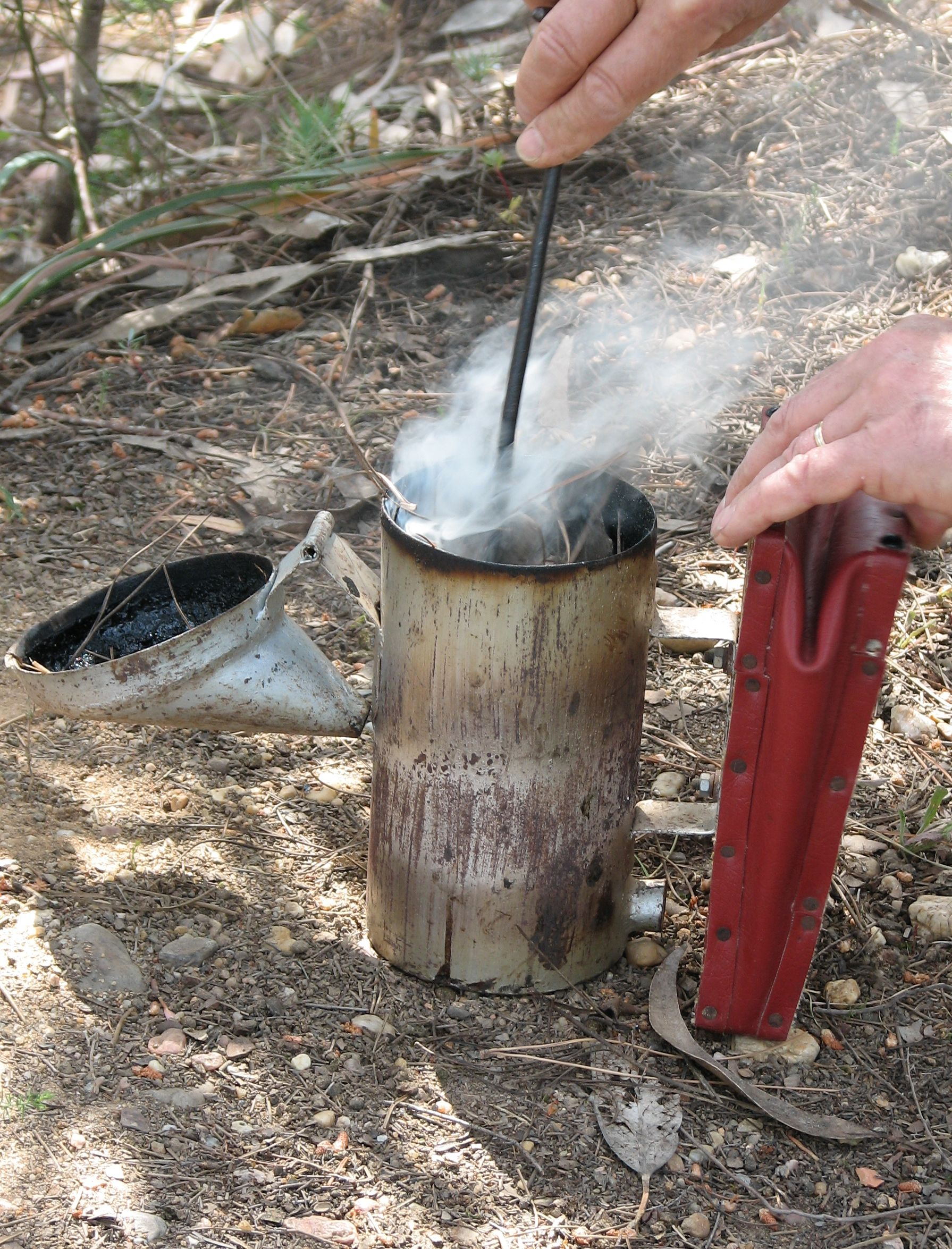 Fireing a bee Smoker; Author:Daniel Feliciano ; Location:Torres Novas - Portugal